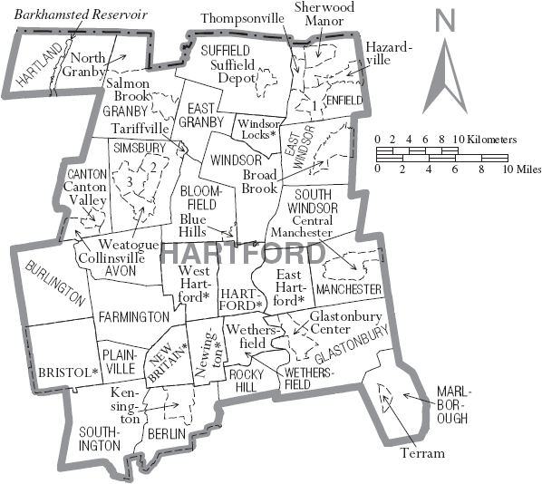 Map of Hartford County, Connecticut, United States with township and municipal boundaries. No copyrighted material was used. some government material was used here